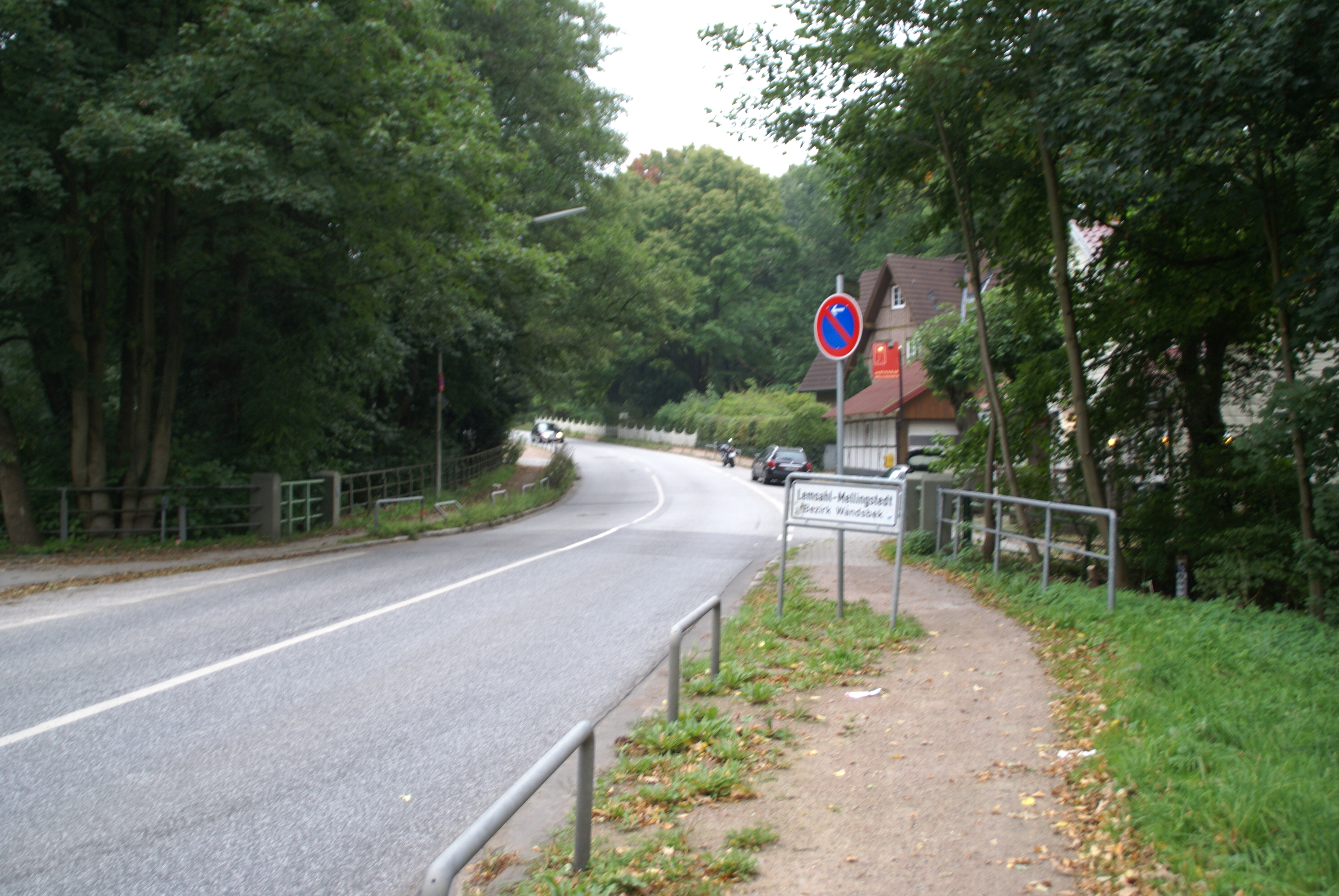 Hamburg, Germany: The Mellingbek at the border between Poppenbüttel (Poppenbüttler Hauptstraße) and Lemsahl-Mellingstedt (An der Alsterschleife).